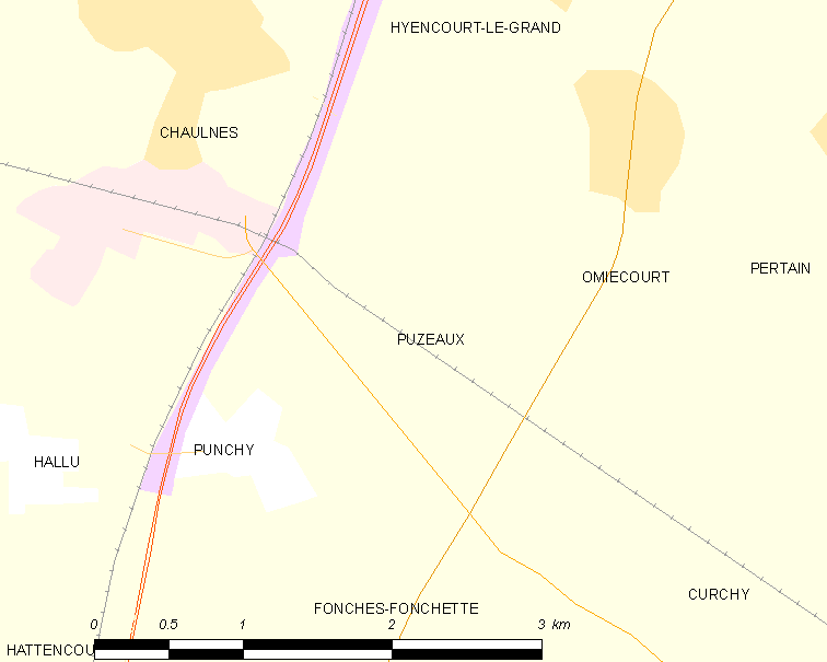 Map of French municipality Puzeaux